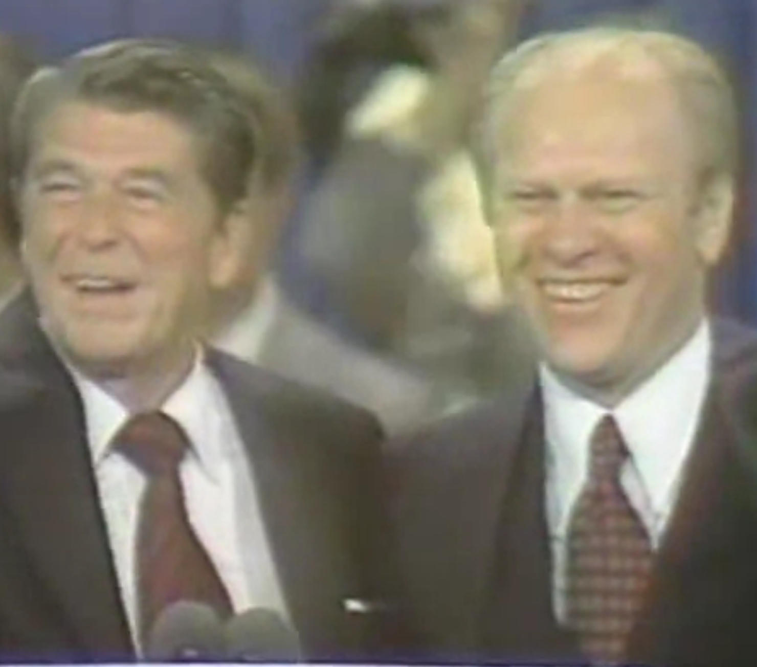 Gerald Ford and Ronald Reagan at 1976 RNC